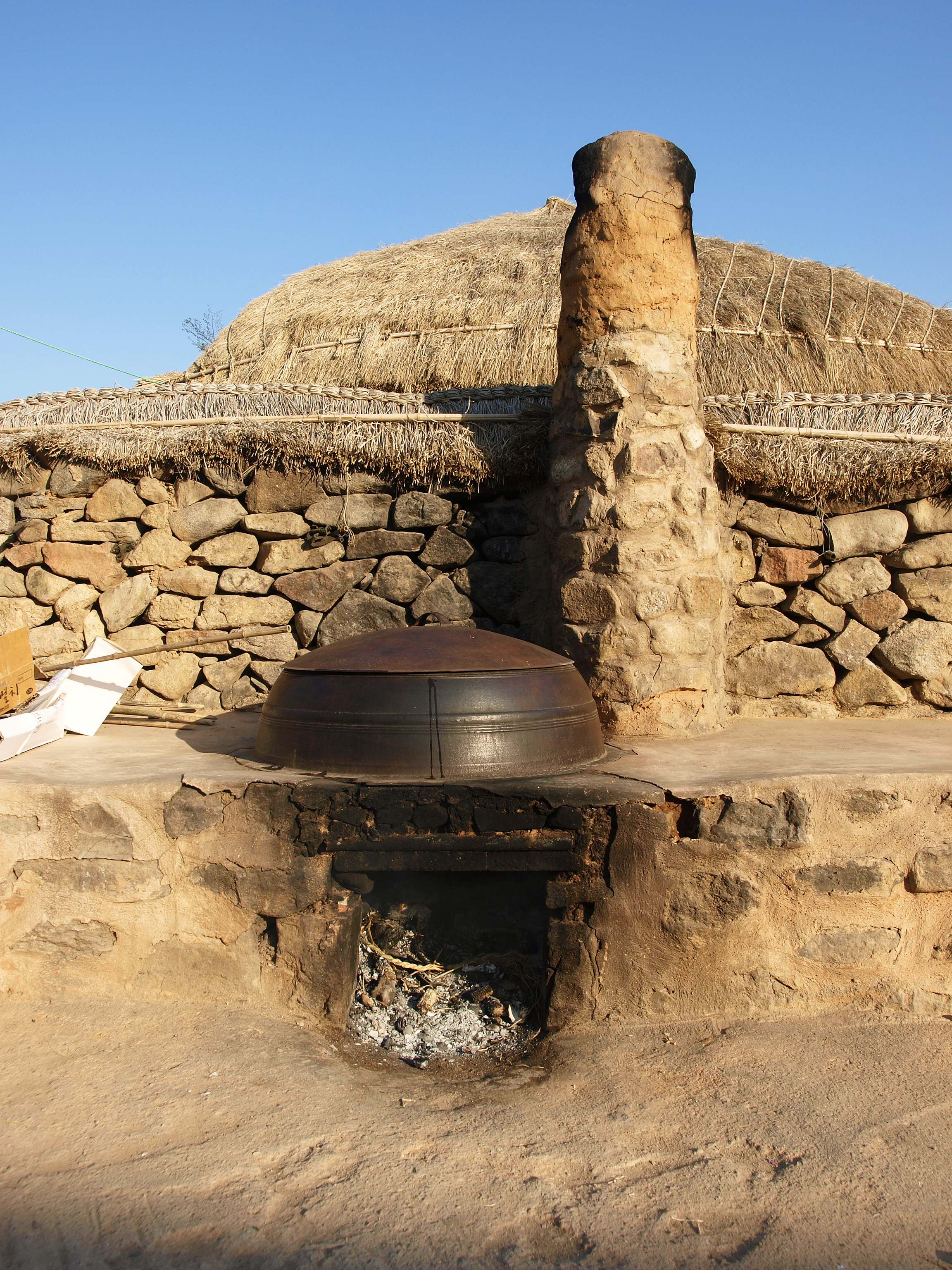 Gamasot with fireplace in Naganeupseong Folk Village, Province Jeollanam-do, South Korea